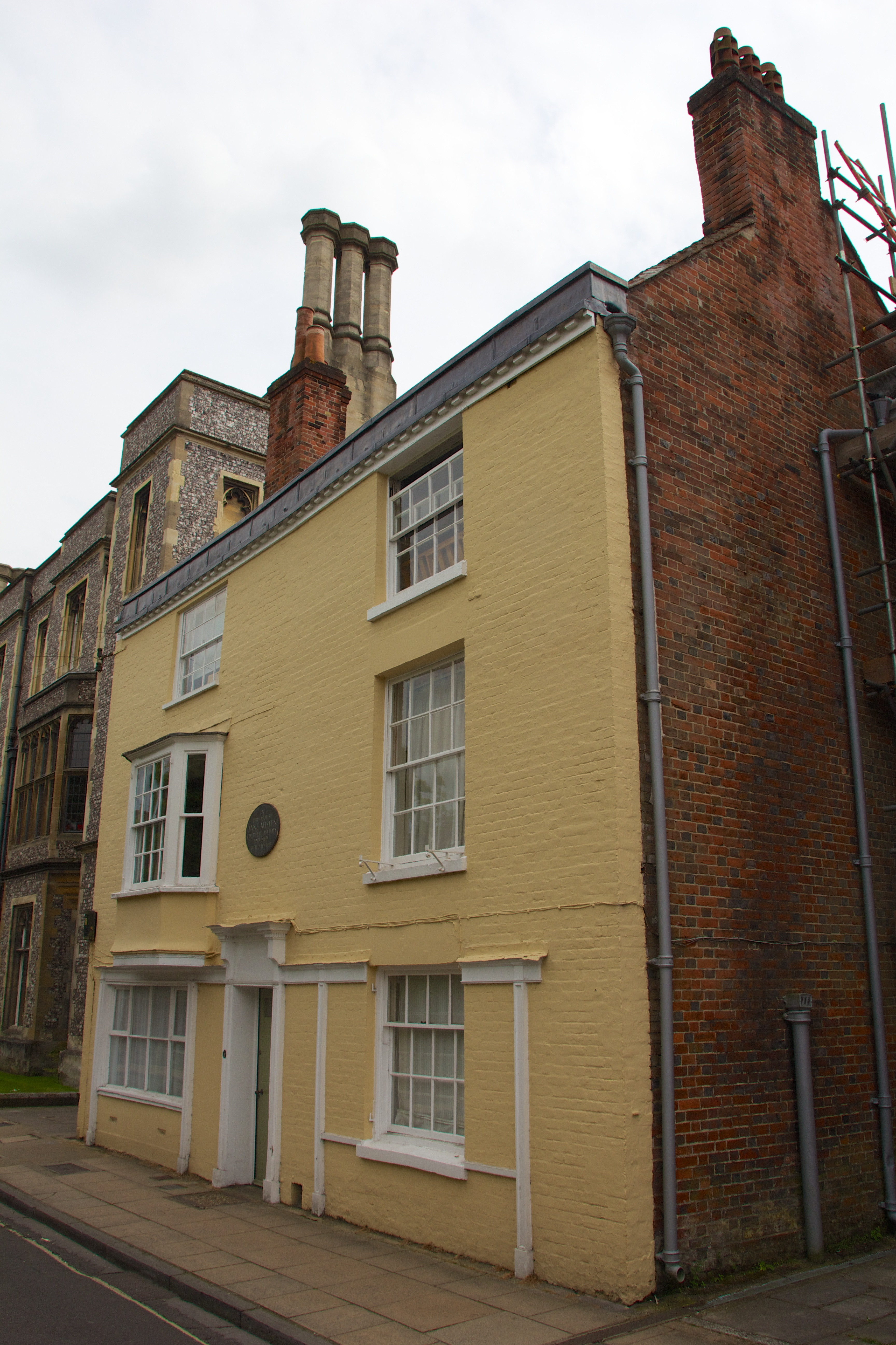 "In this house Jane Austen lived her last days and died 18th July 1817." Winchester.